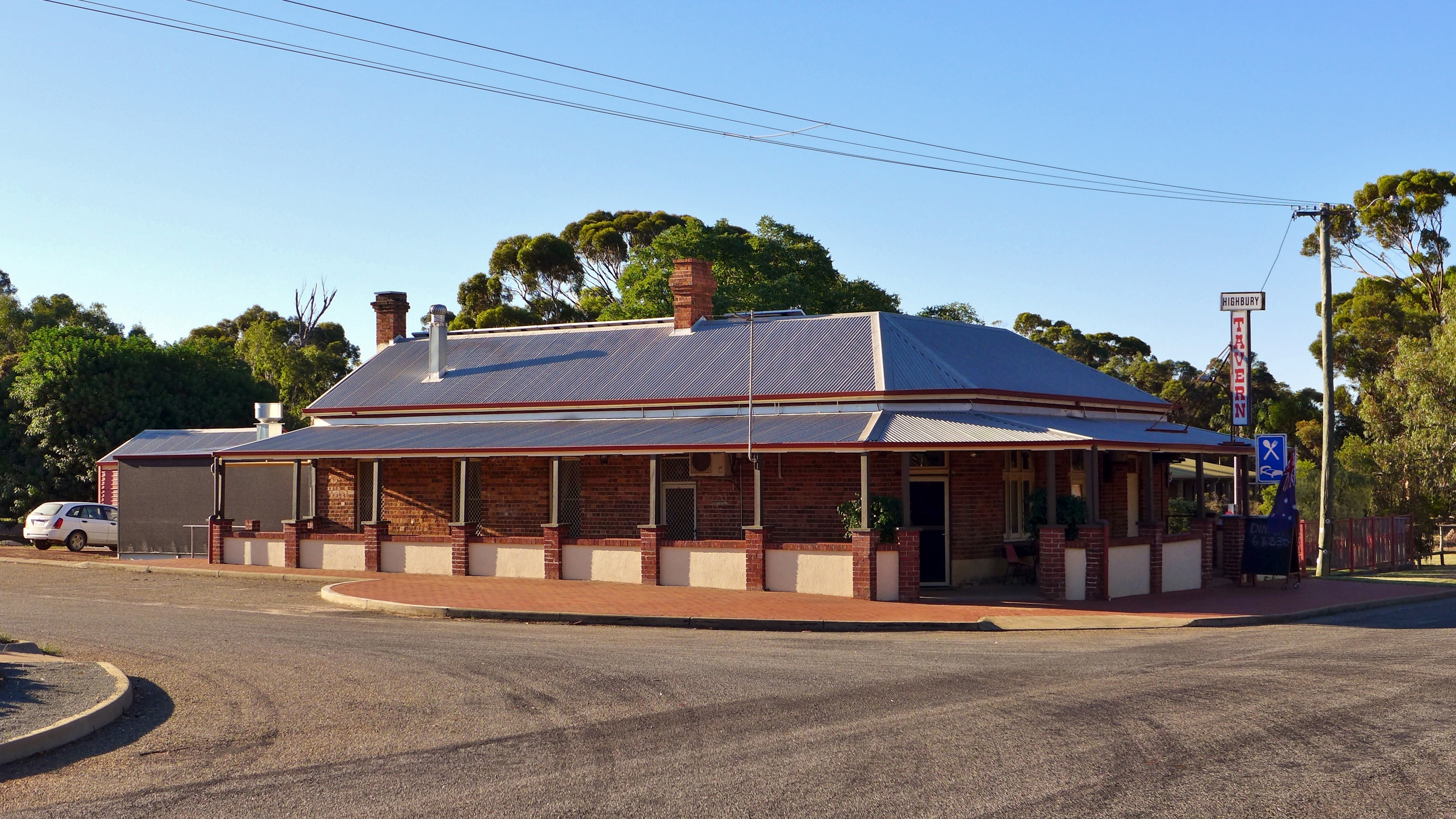 View of the Highbury Tavern, Highbury, Western Australia